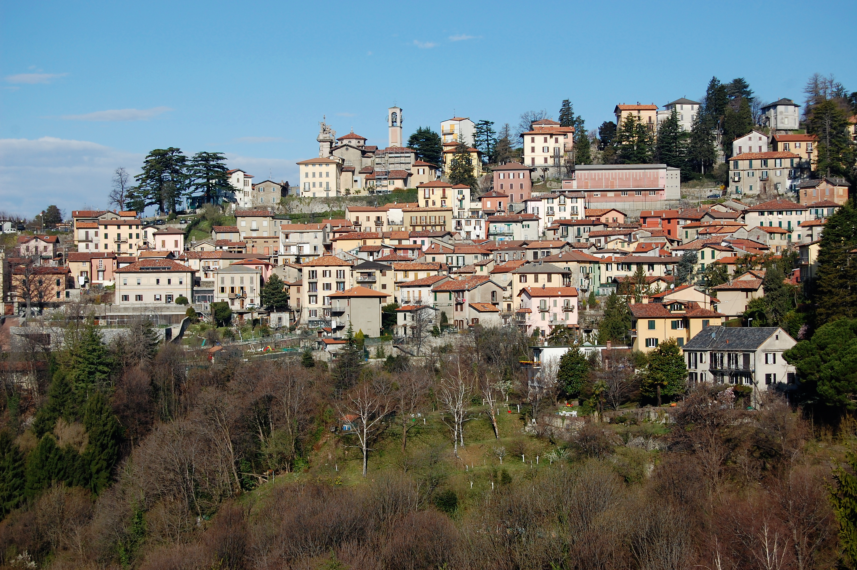 The Centre of Brunate (CO), seen from Via per Civiglio